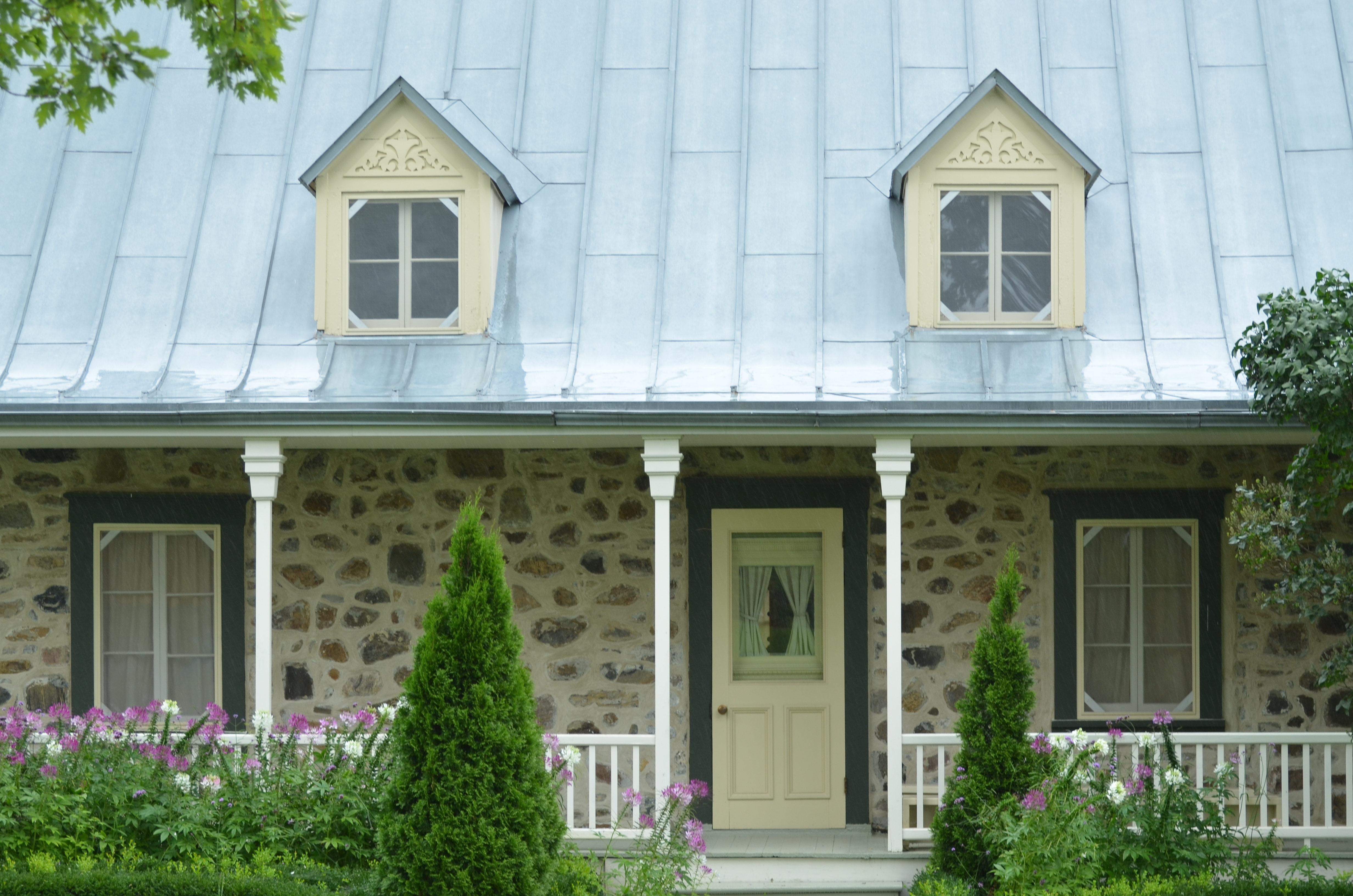 Maison Beaudry in Montréal.